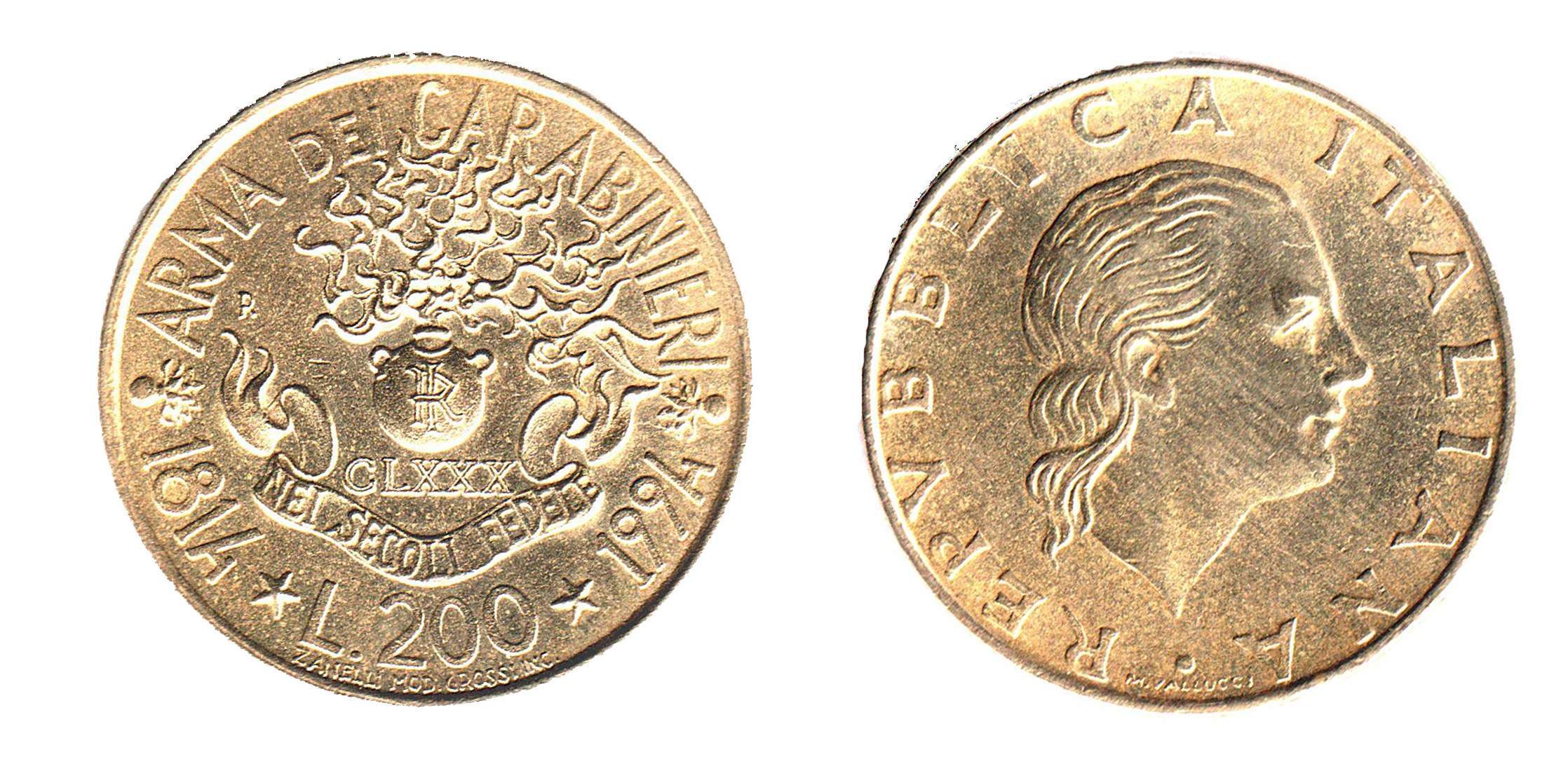 200 lire carabinieri